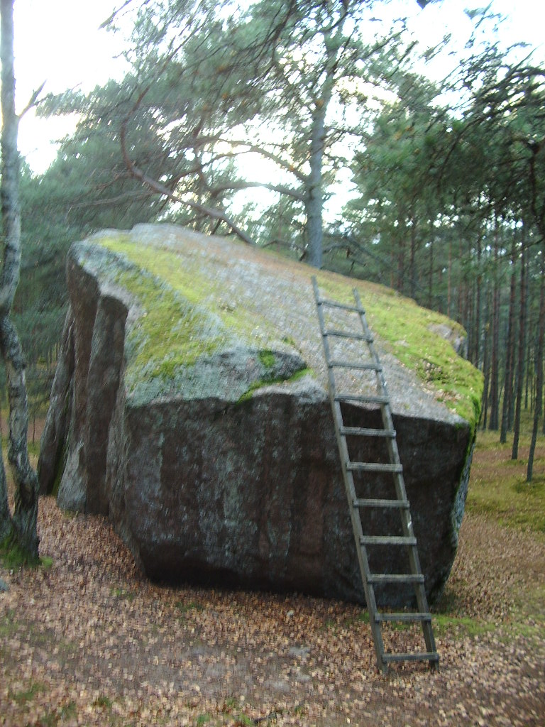 Augu suurkivi near Haapse village in Harju County. Perimeter 27m, height 7m.